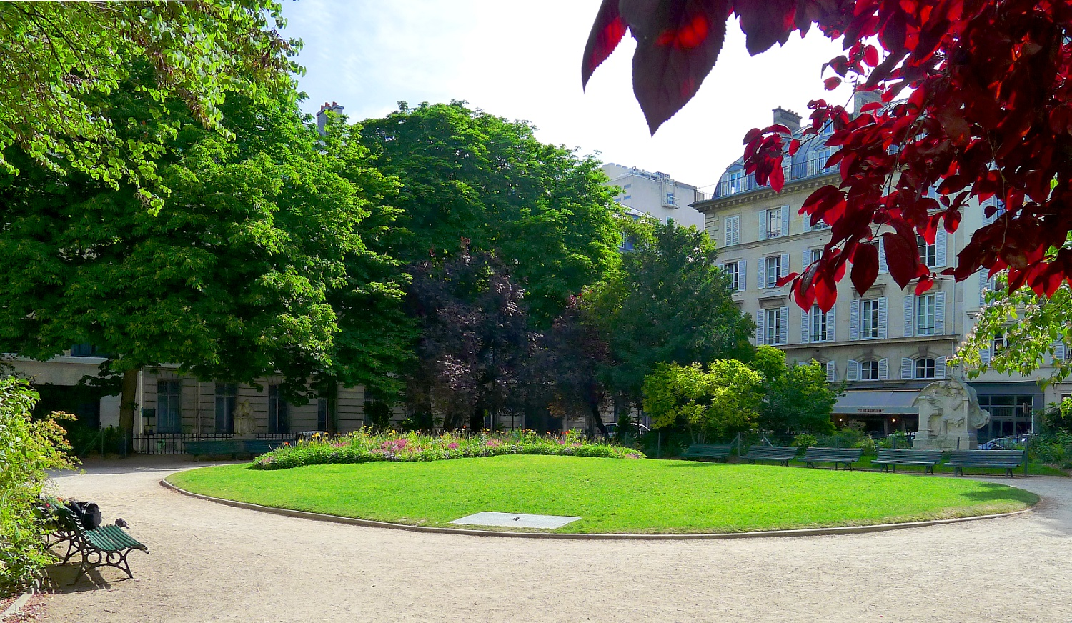 Samuel-Rousseau square - Paris